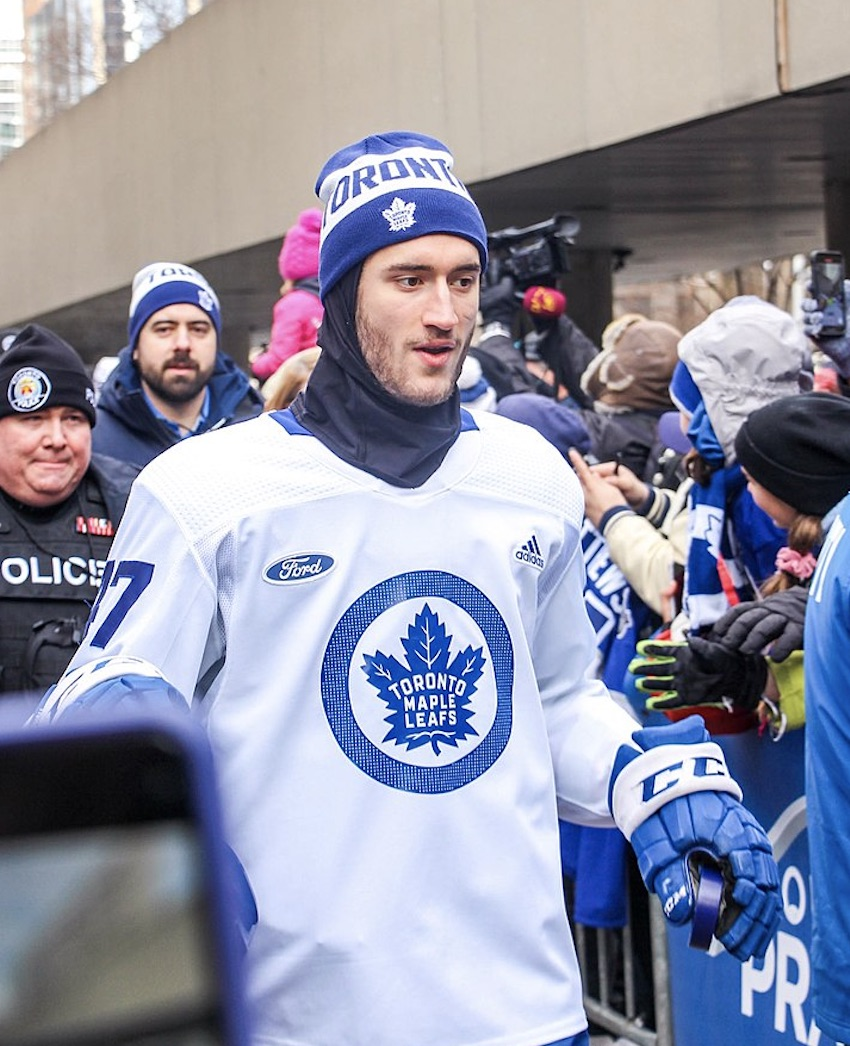 Pierre Engvall at the Toronto Maple Leafs outdoor practice.